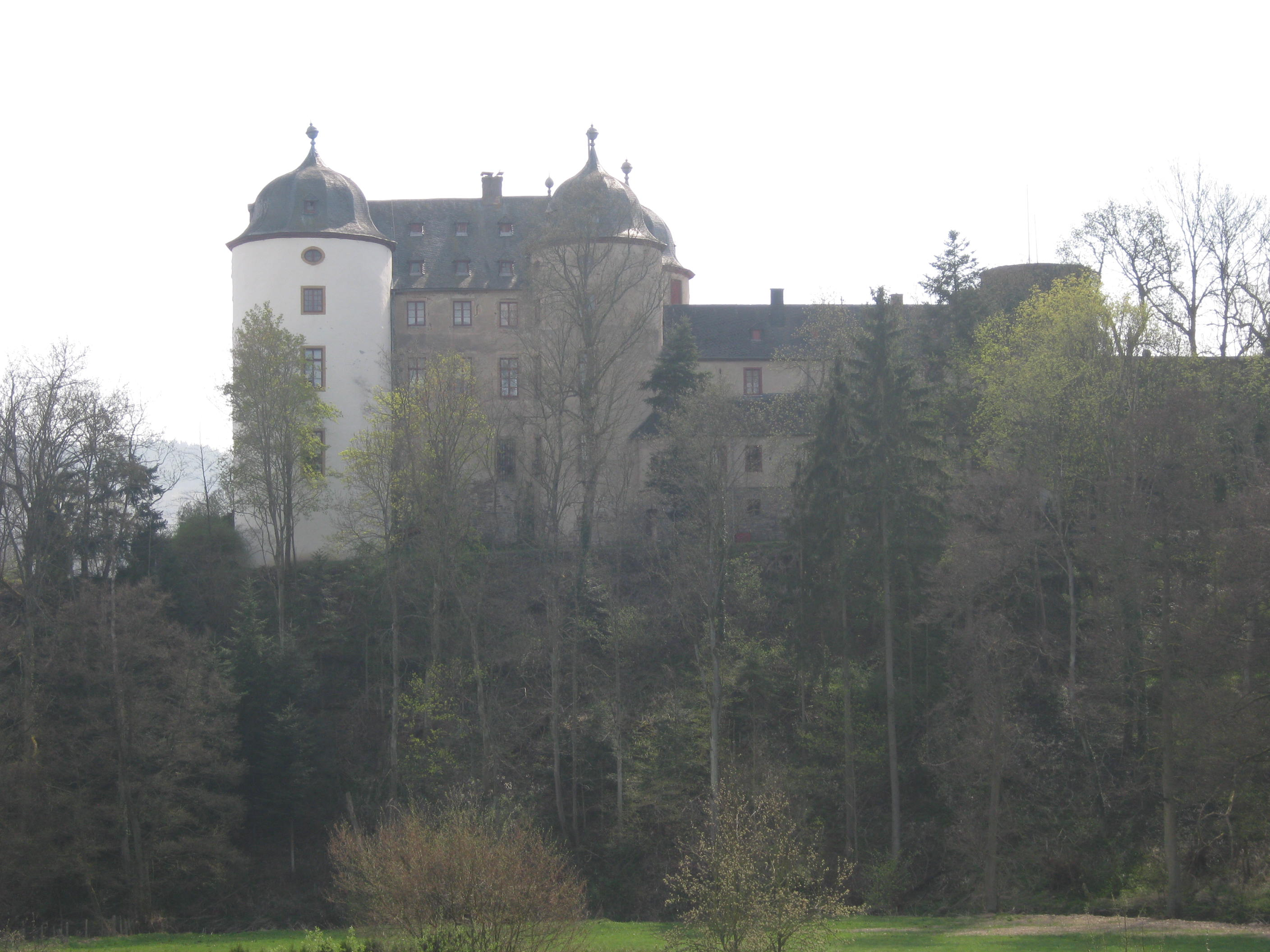 Schloss Gemünden